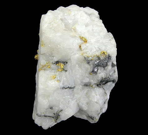 Gold, Quartz Locality: Golden Age, Jamestown District, Boulder County, Colorado, USA (Locality at ) Size: 3.5 x 2.8 x 2.6 cm. A historic Gold specimen dating back over 100 years. The piece is originally from the collection of Clinton H. Moore, and the old label indicates that the piece was collected in 1891. It features several small, highly modified Gold crystals/wires which are imbedded in massive white Quartz and are associated with minor Molybdenite. This specimen is from the well known Colorado Gold collection of Richard Kosnar, and his collection label indicates that Clinton H. Moore was a graduate of Dartmouth in 1874. A very interesting documented Gold specimen from the far northern end of the Colorado Mineral Belt.